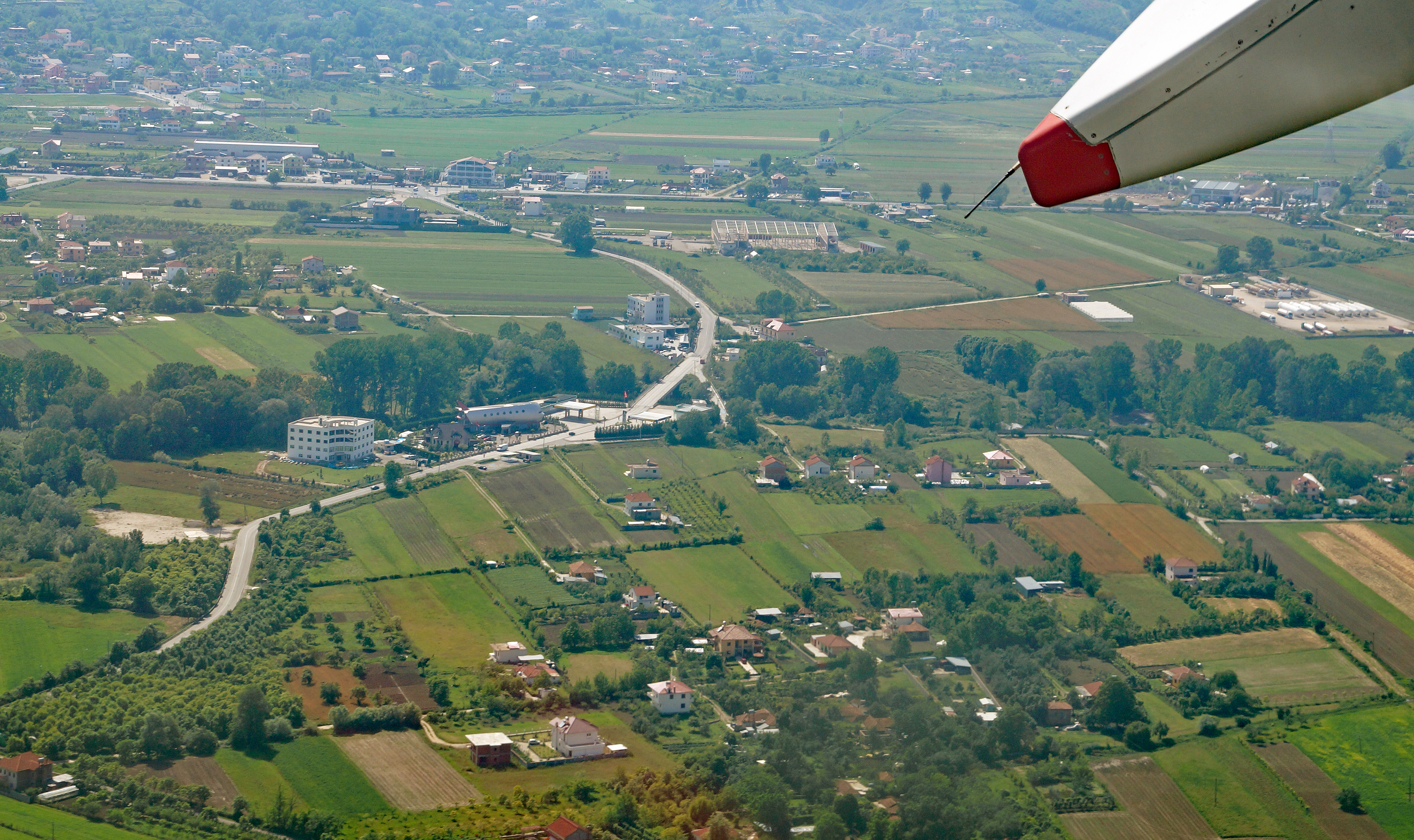 Aerial view of the villages Rinas and Fushë-Preza and the bridge over the river Ishëm just North of Tirana Airport